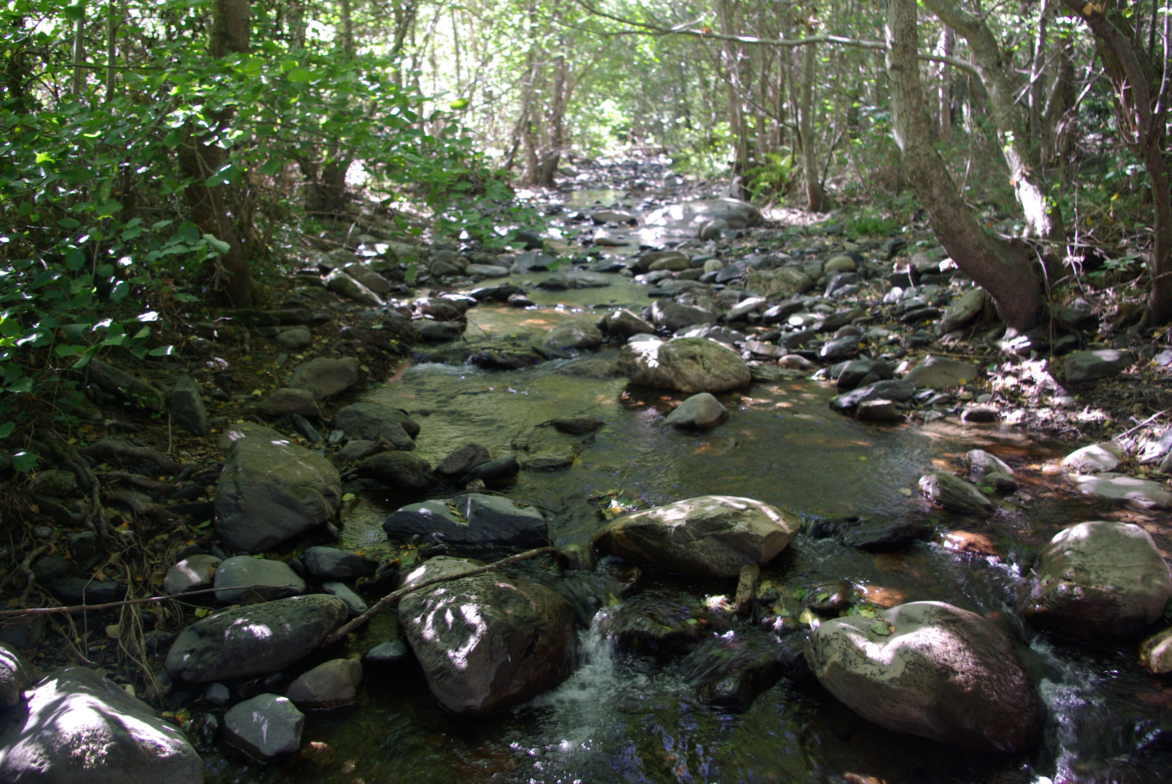 River Benuza, Cabrera tributary, Sil Basin. Near Pombriego, León (Spain)